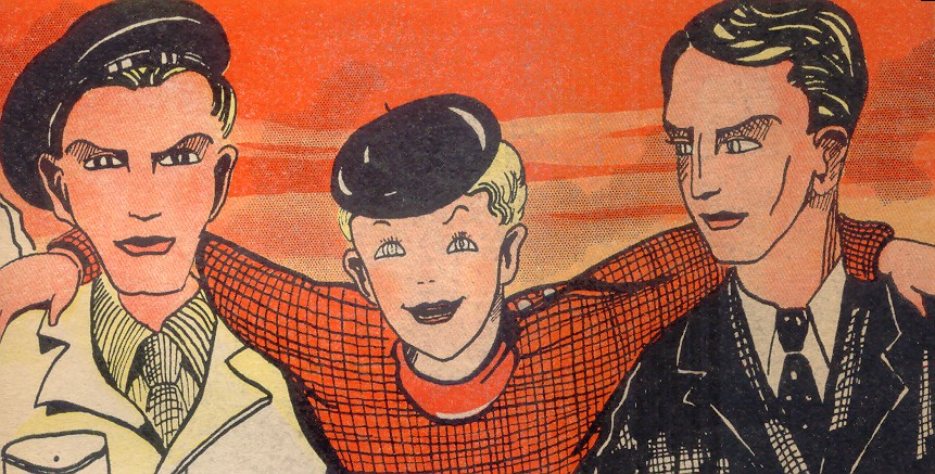 Scanning of cover of book of the 'Belle-Humeur' collection (more than 70 years old)